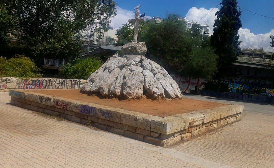 neo faliro